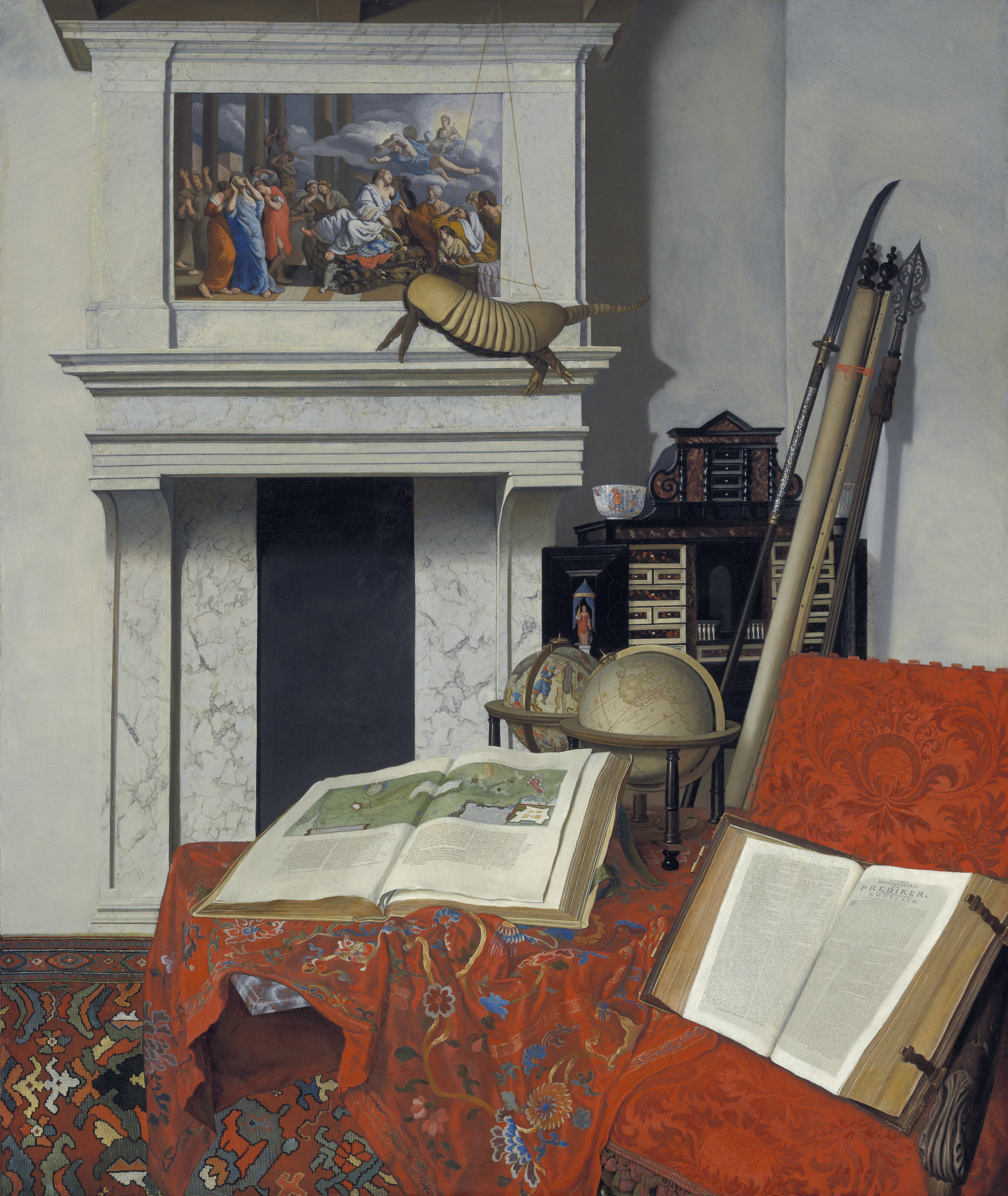 Corner of a study with rarities oil on canvas 75 cm x 63.5 cm 1712 signed b.r.: oud J v / d H 75 Jar